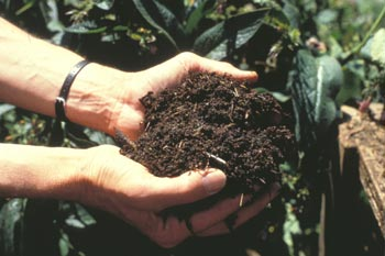 organic matter